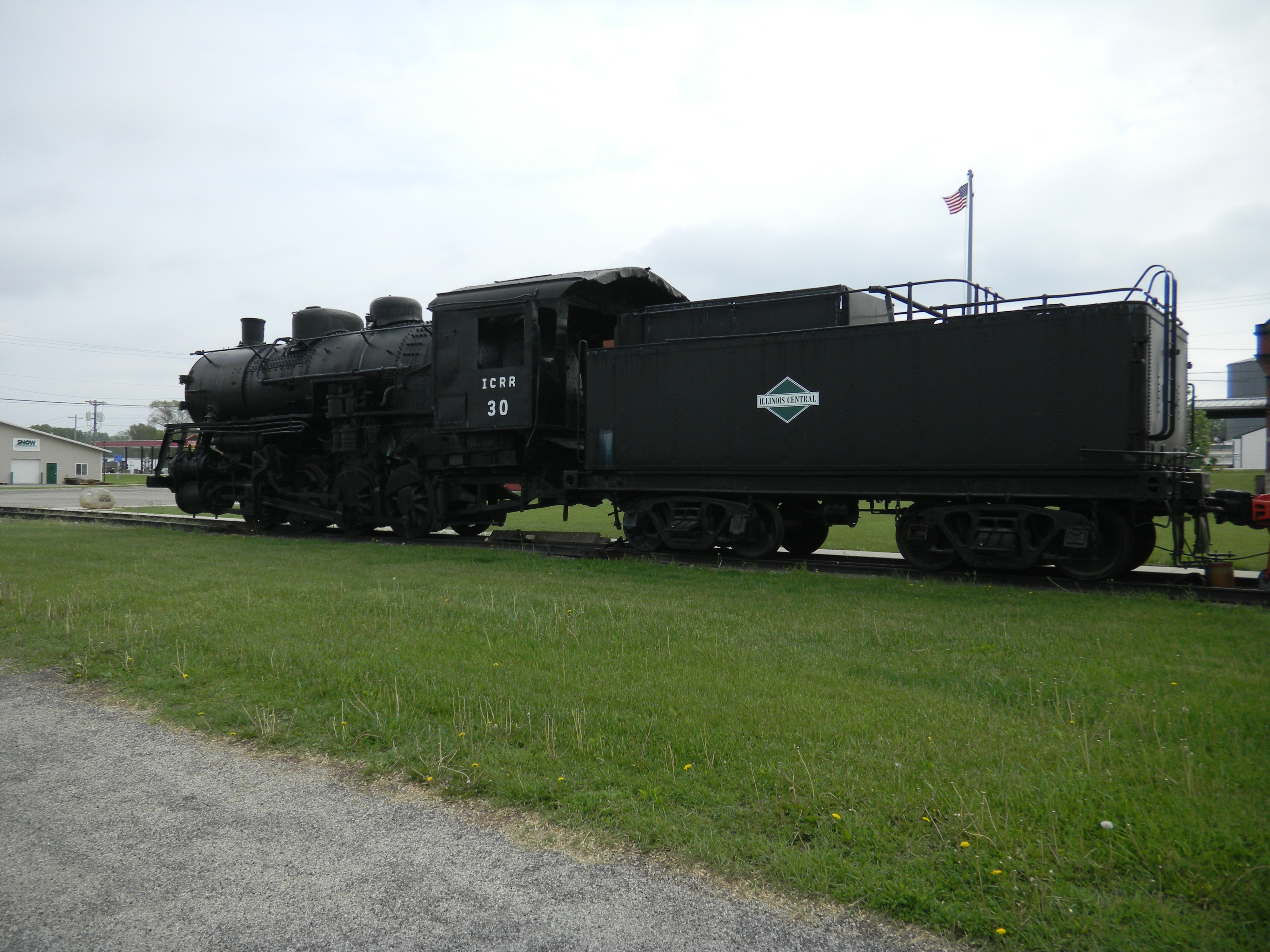 Illinois Central #30, a 0-8-0, with tender car on display at Independence, Iowa